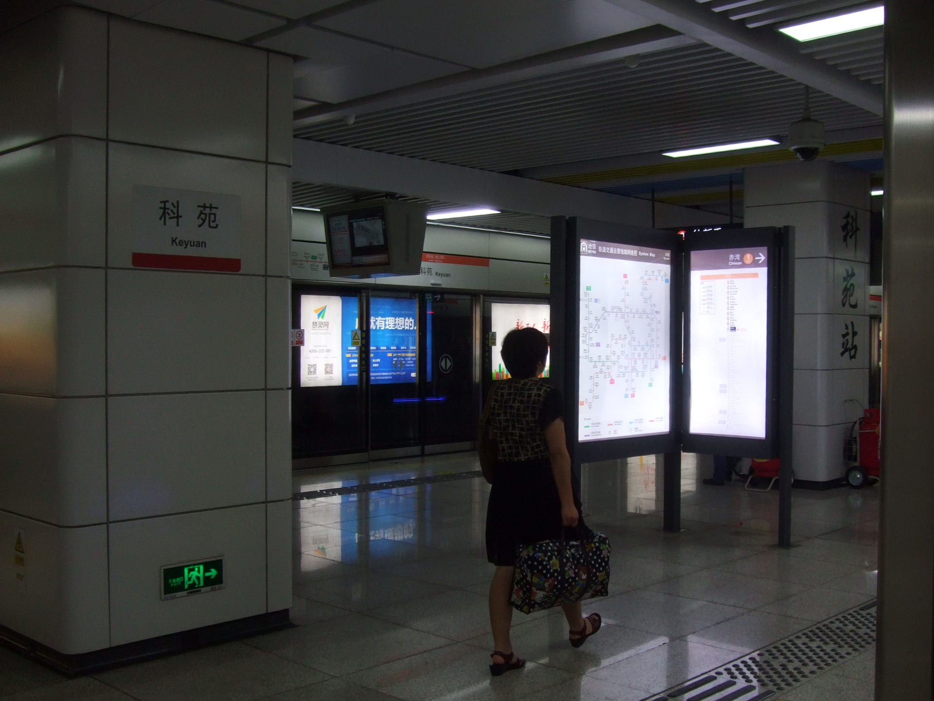 Shenzhen Metro Keyuan Station